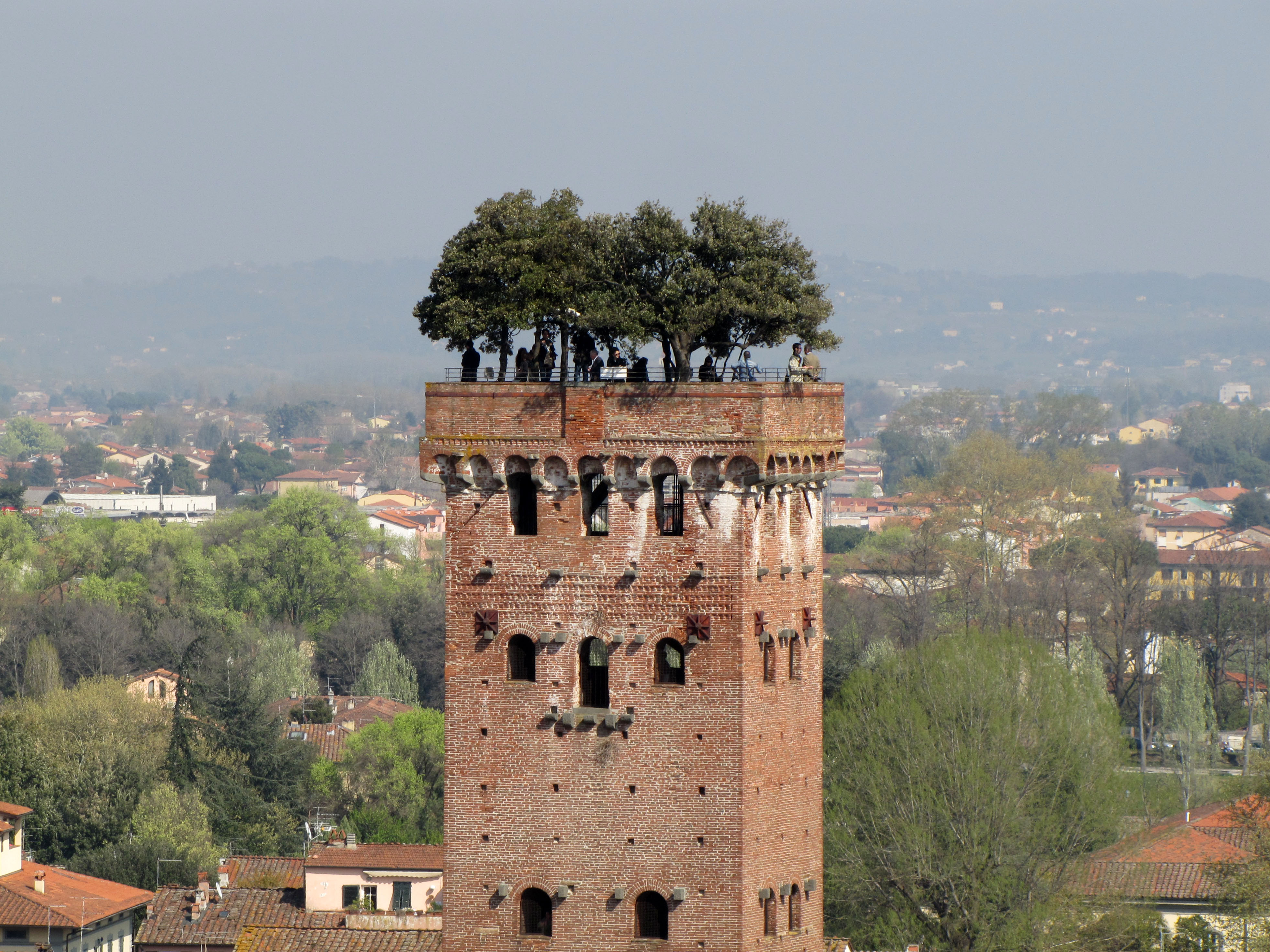 Torre Guinigi, Guinigi Tower, Via Sant'Andrea, Lucca